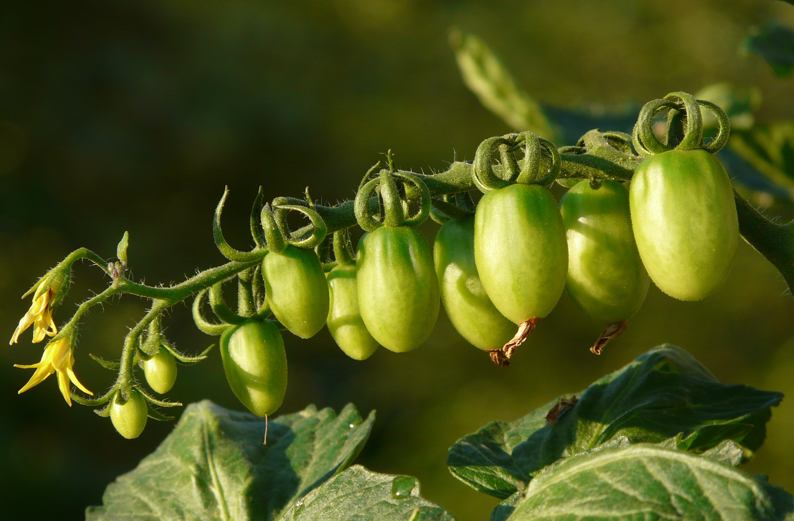 Unripe tomatoes